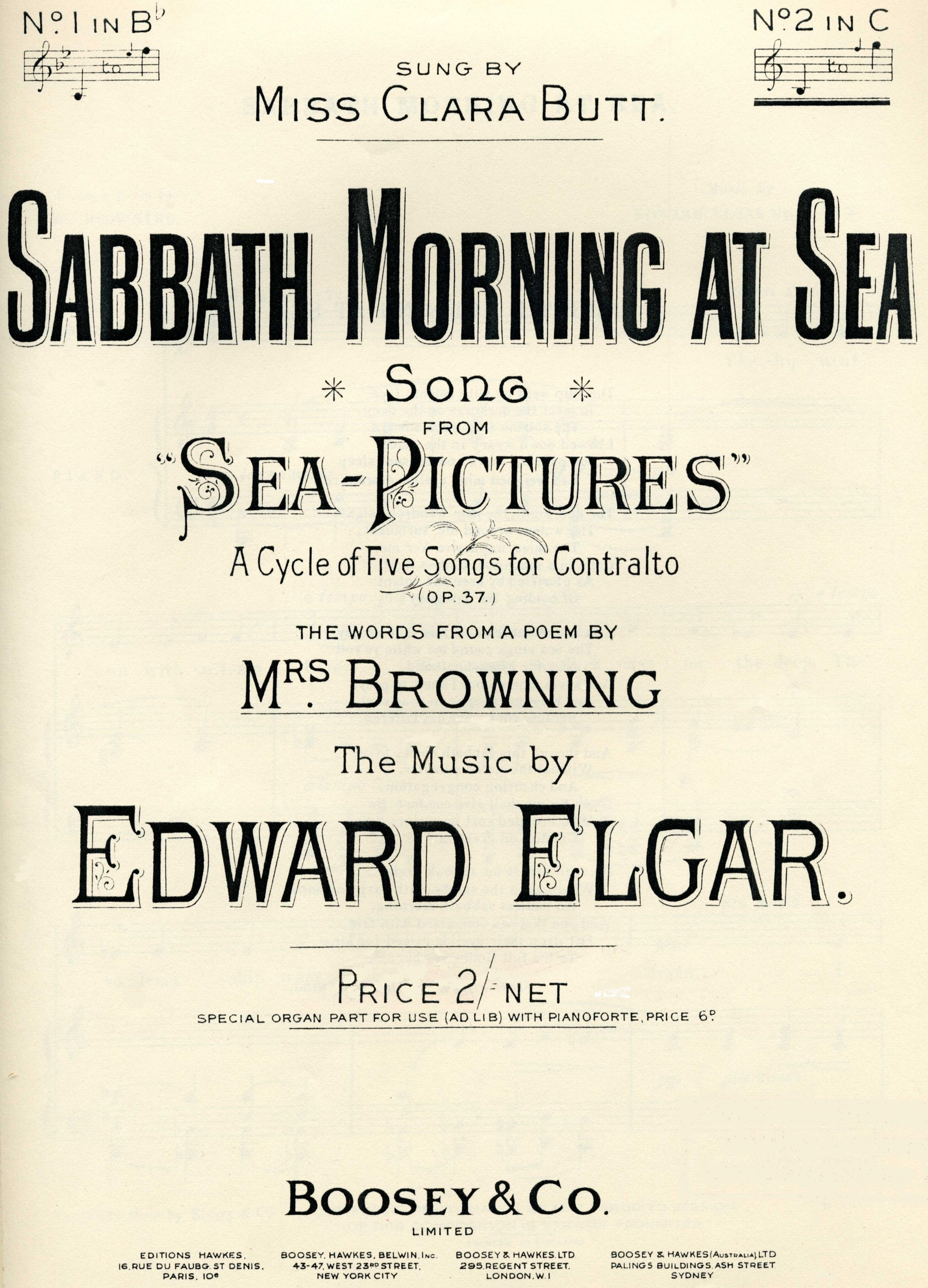 Sheet music cover for "Sabbath Morning at Sea" by Edward Elgar